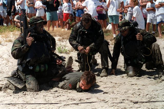 Members of a U.S. Navy Sea-Air-Land (SEAL) team secure a prisoner during a public demonstration.